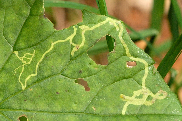 Phytomyza tussilaginis from Commanster, Belgian High Ardennes .